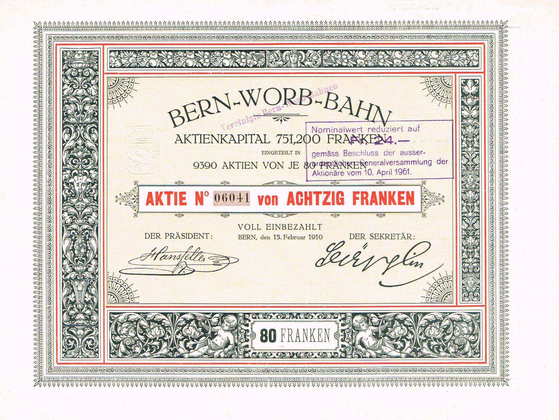 Share or the Bern-Worb-Bahn, issued 15. February 1910